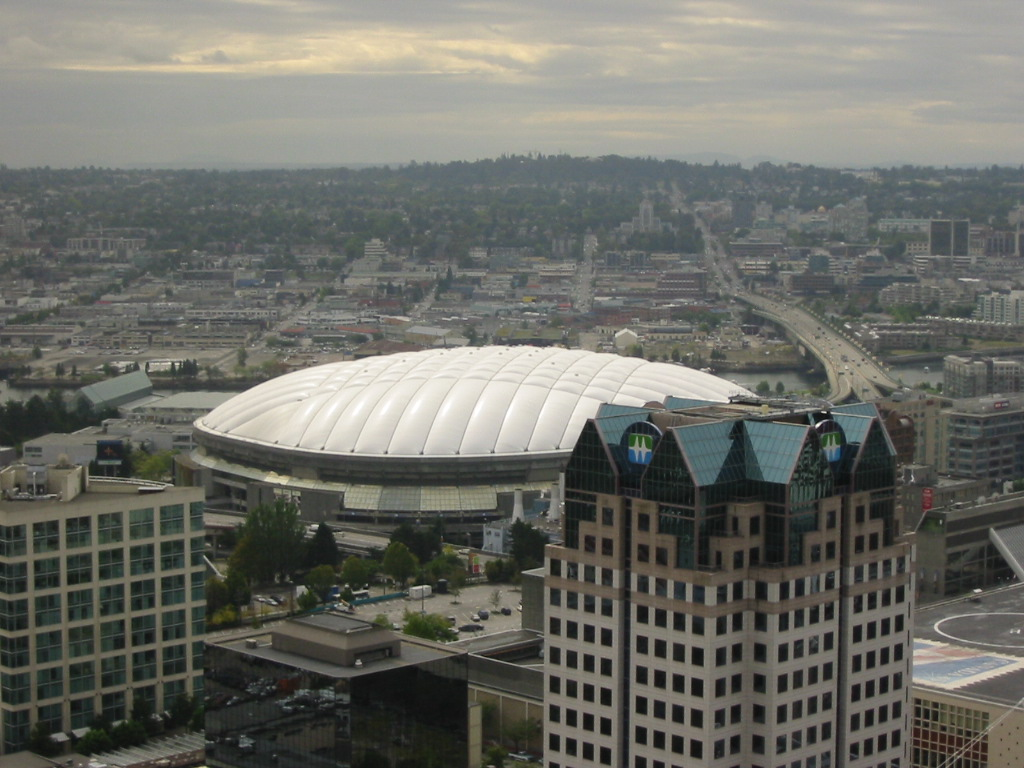 Taken by User:Gateman1997 in 2003. Released for public use.